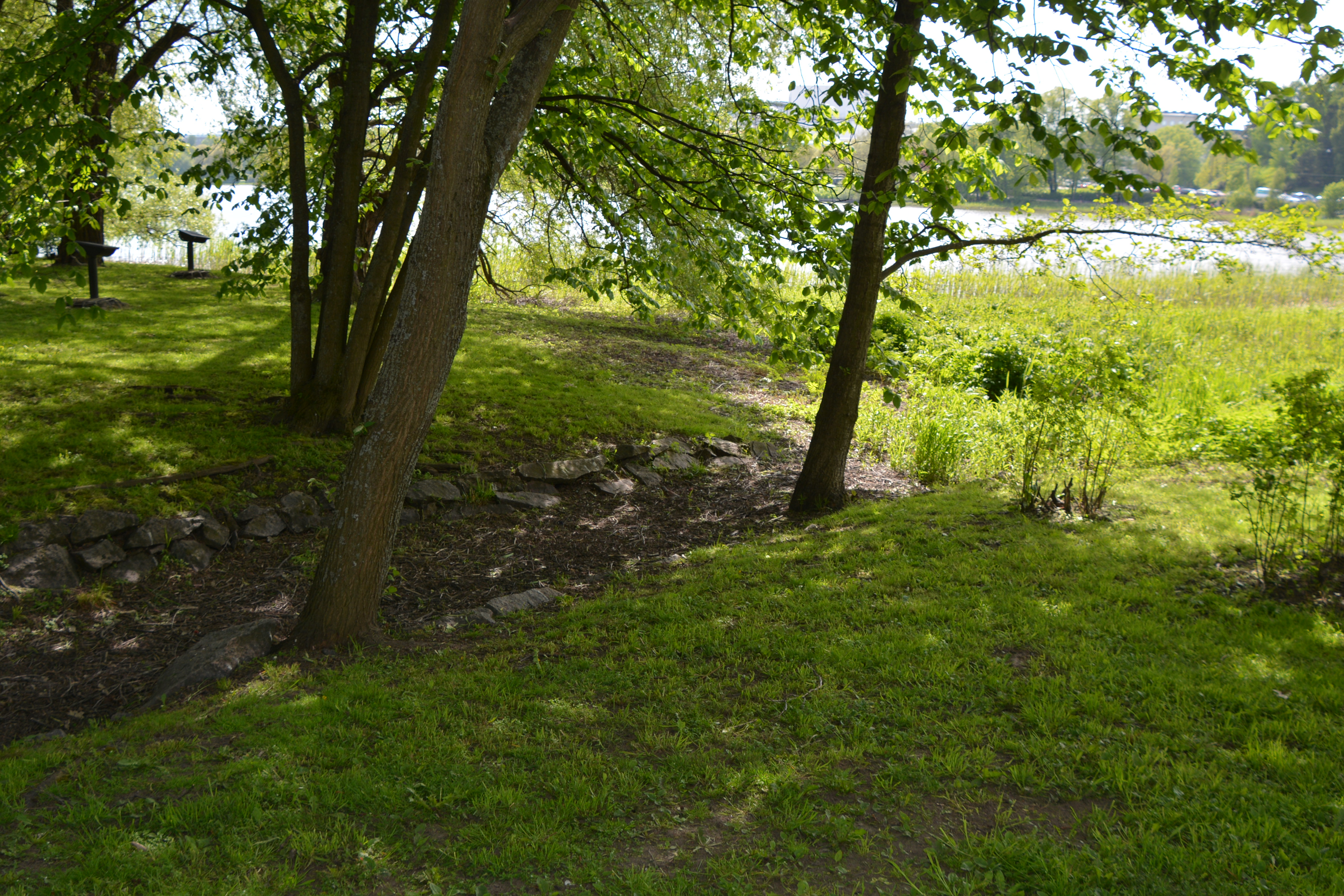 Simberg's ditch, where "The Wounded Angel" was painted by Hugo Simberg, Helsinki, Finland